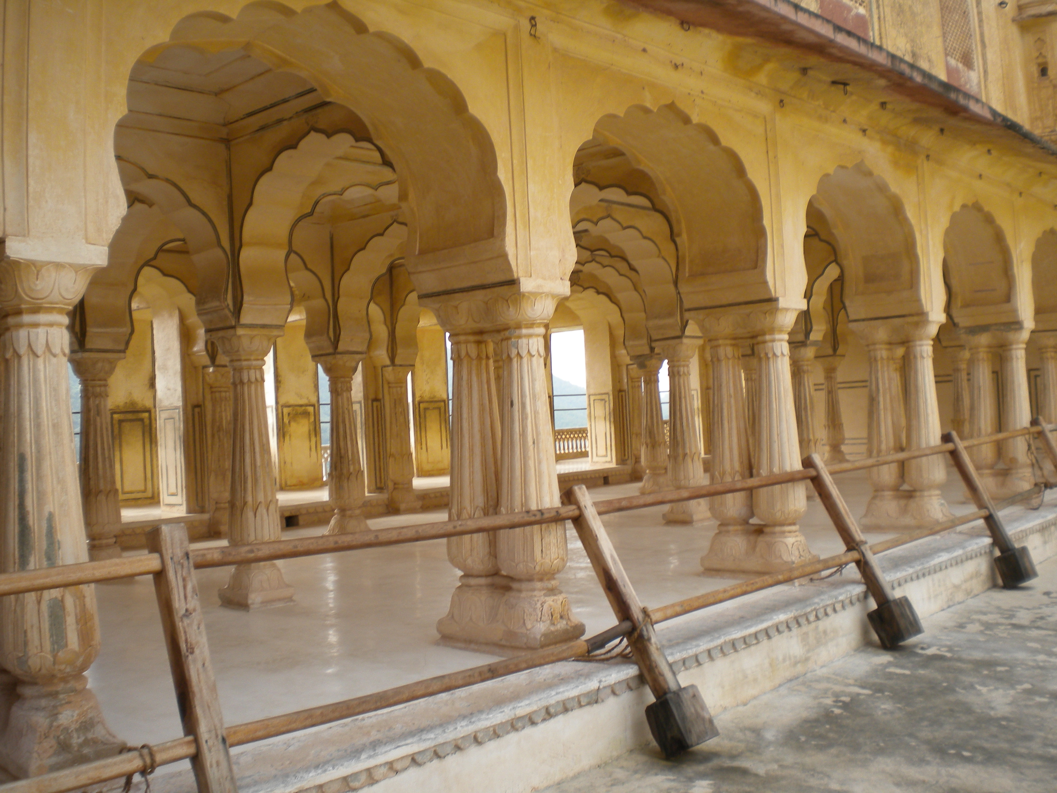 Toshakhana (27 Kacheris or 27 offices) of Amber Fort. Located near Diwan-i Am.